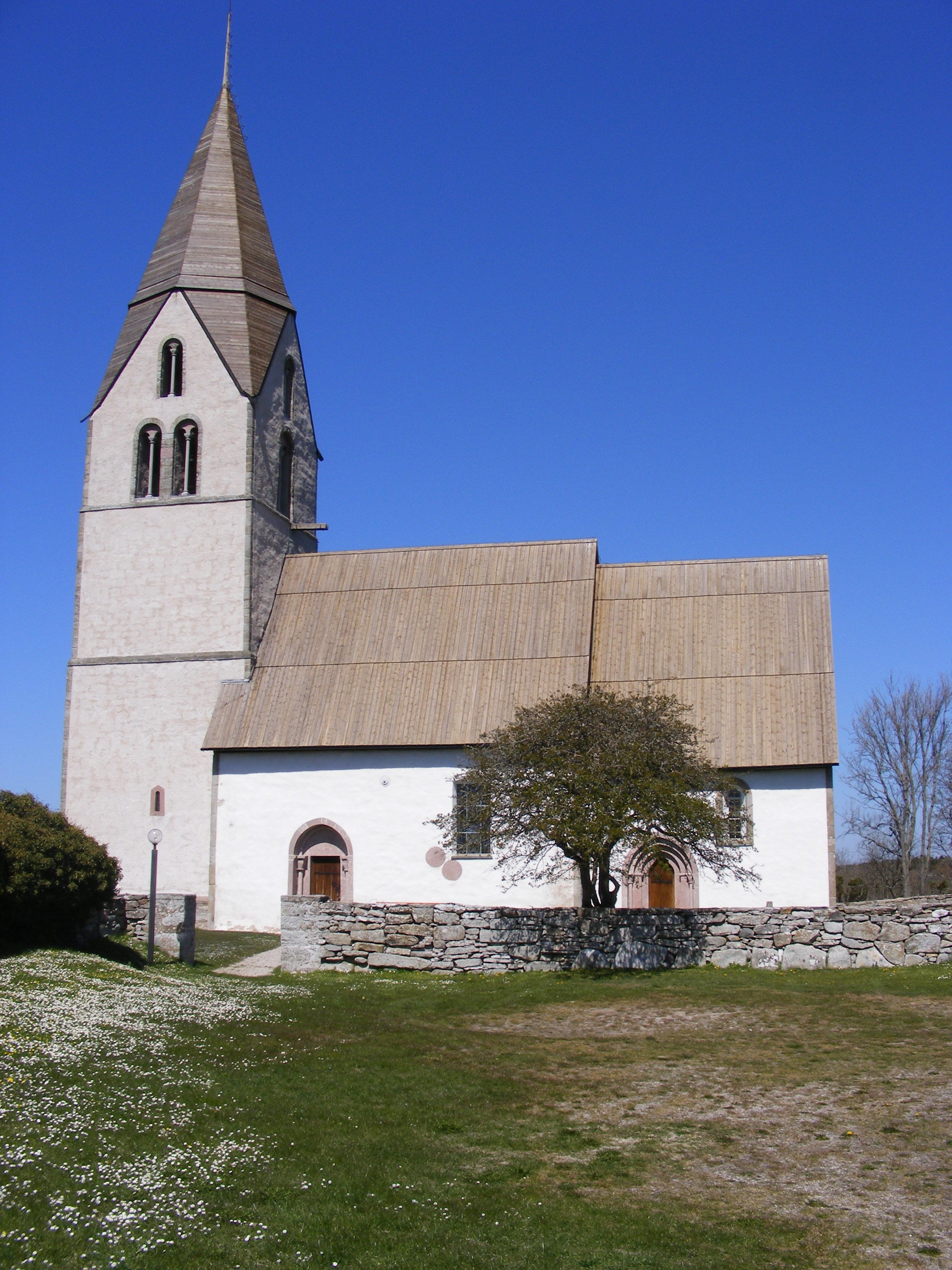 Medieval church, Sundre, Gotland, Sweden